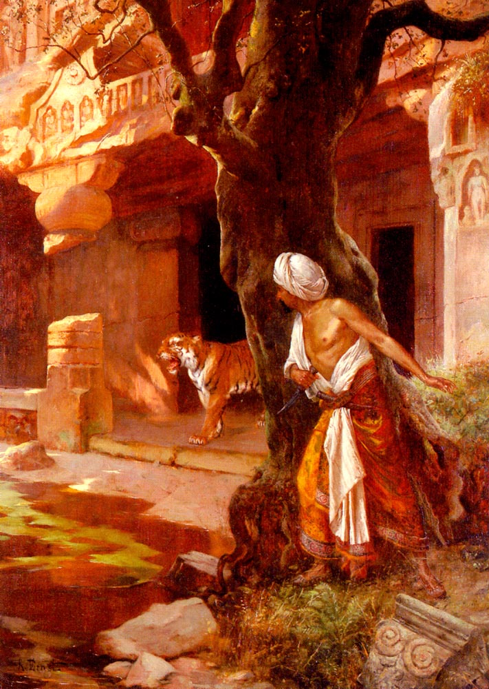 Awaiting The Tiger